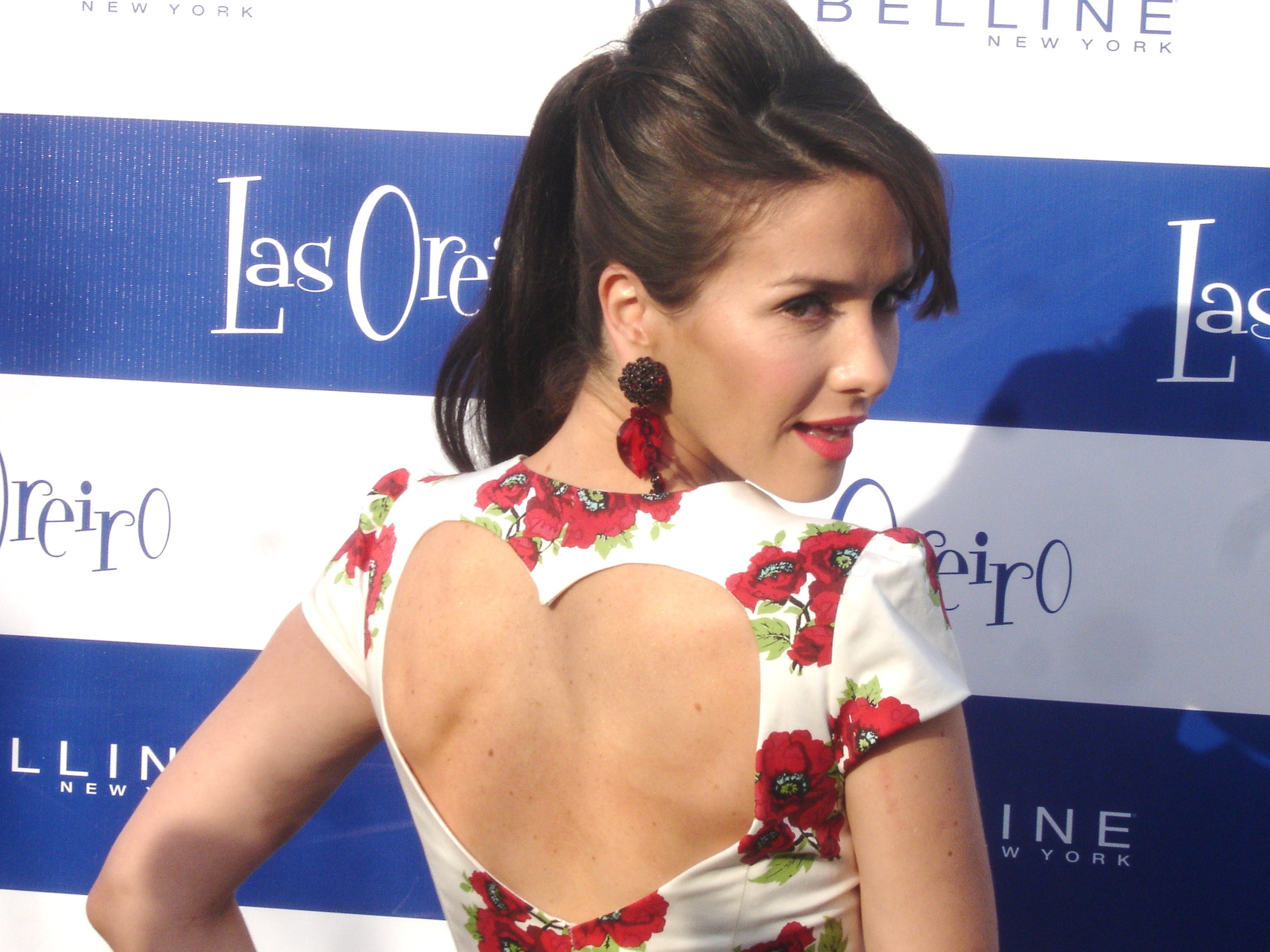 Natalia Oreiro in Las Oreiro parade